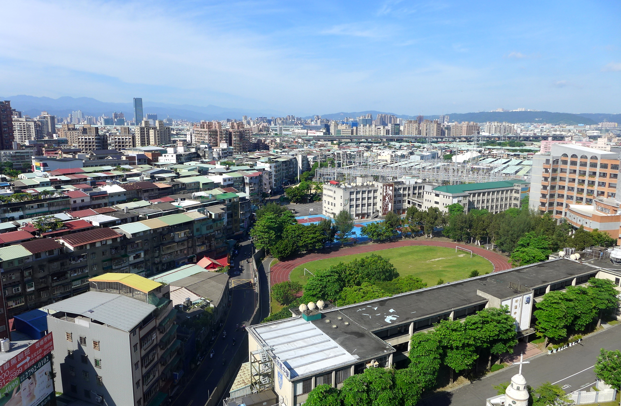 Luzhou District Buildings